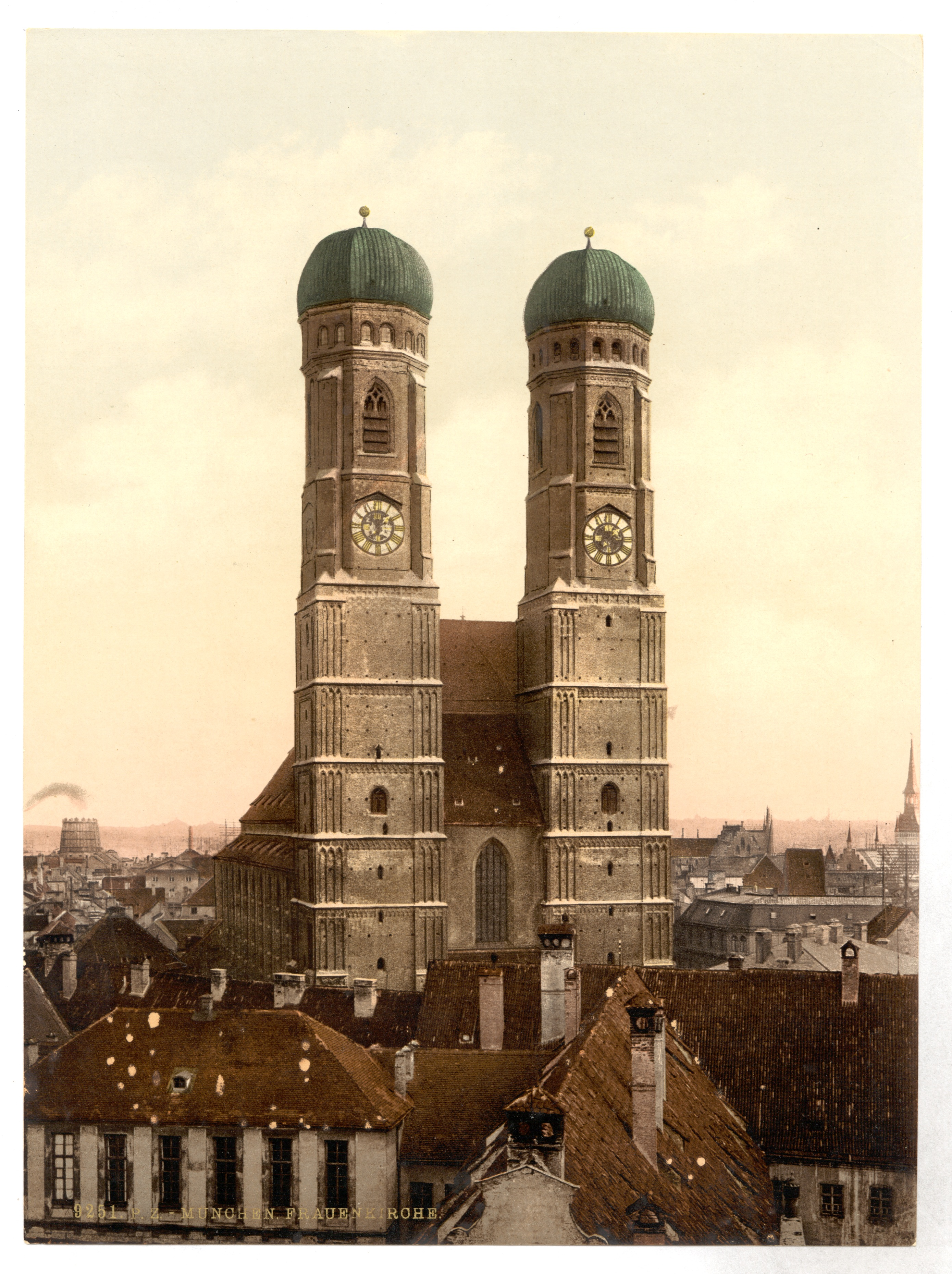 Print no. "9251".; Title from the Detroit Publishing Co., catalogue J-foreign section. Detroit, Mich. : Detroit Photographic Company, 1905.; Forms part of: Views of Germany in the Photochrom print collection.